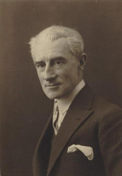 Portrait of Maurice Ravel